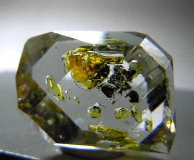 Quartz with Petroleum Inclusions. From Balochistan, Pakistan. It measures 1.7 x 1.3 x 0.9